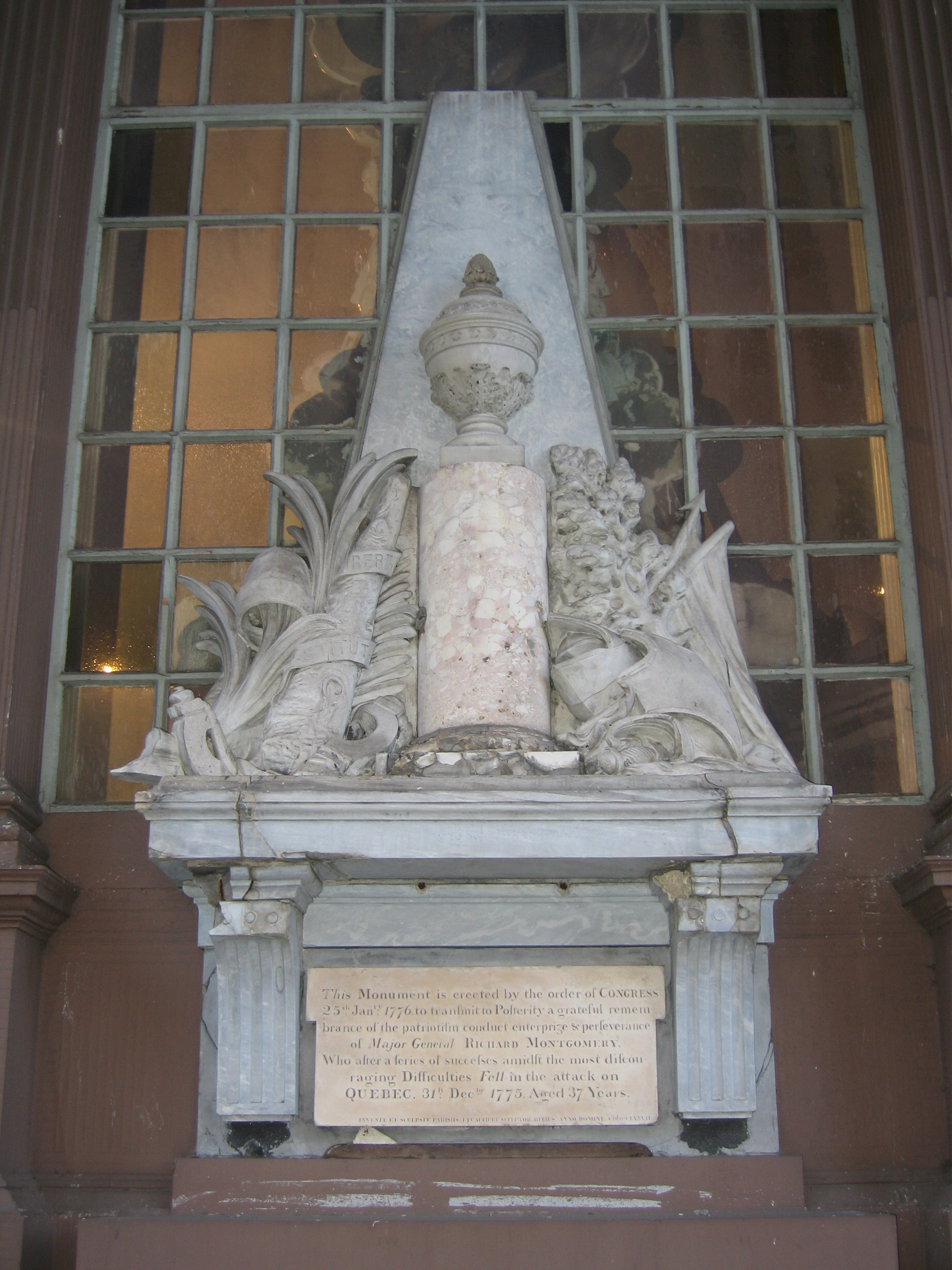 Monument to Richard Montgomery, located above his tomb at St. Paul's Chapel, Manhattan